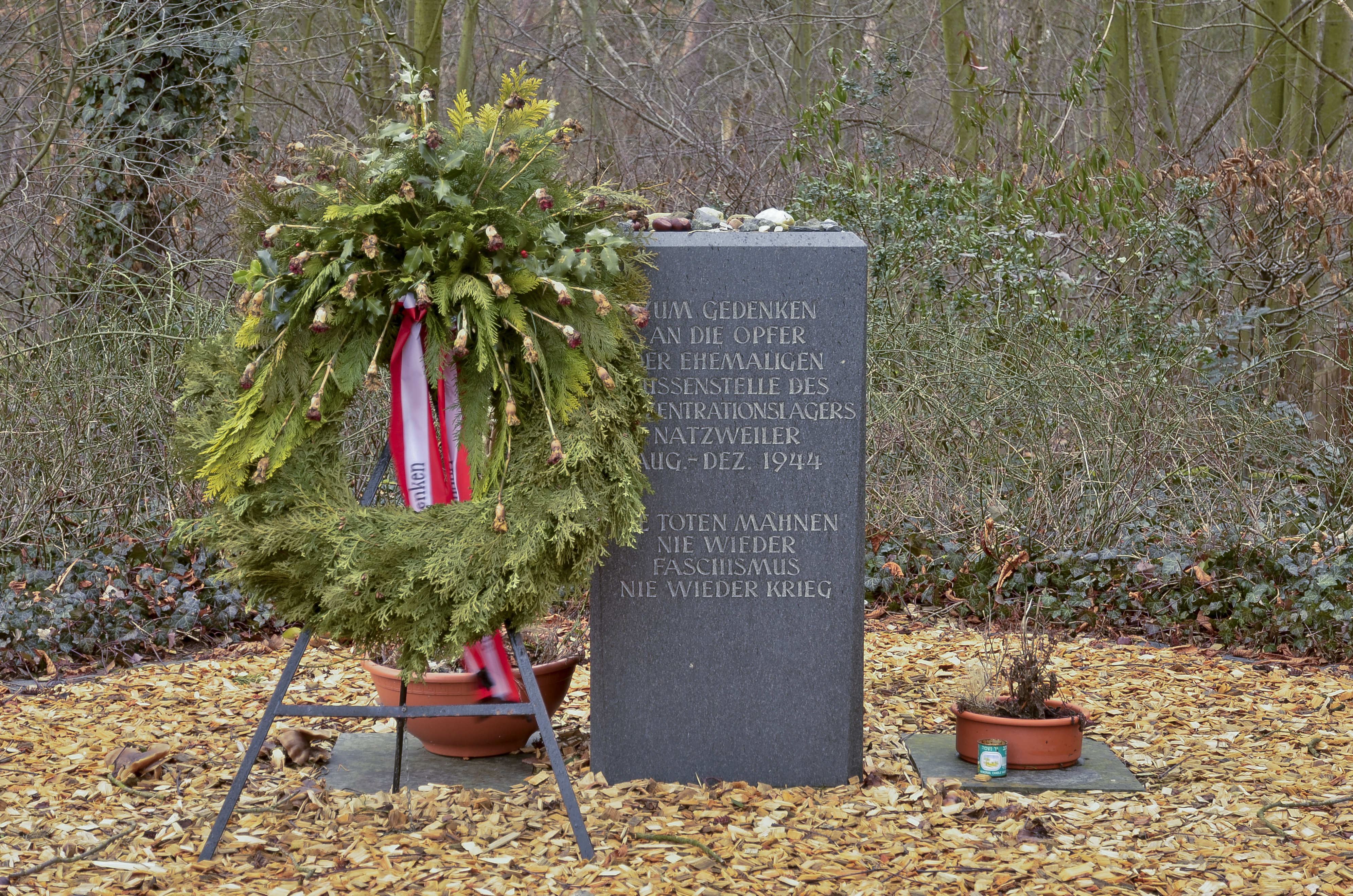 Memorial - labour camp Walldorf / Frankfurt Airport - Outpost of the concentration camp Natzweiler-Struthof. In use from August until December 1944. Up to 1700 Hungarien jewish women were detained in the camp for forced labour on a runway construction site of the company Züblin at the Frankfurt Airport. About 50 women didn't survive this time period of 4 months. From the remaining women, only about 300 survived further deportation and the holocaust.